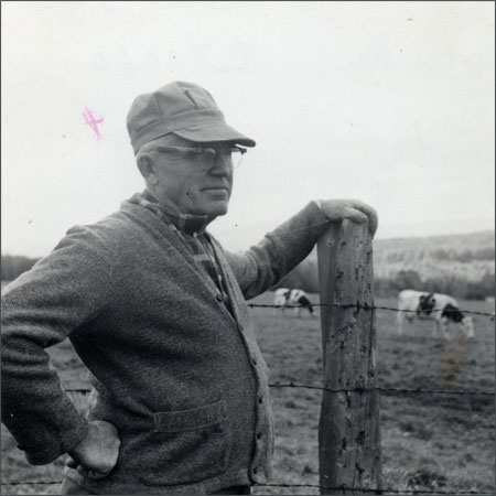 casual photograph of subject standing outside